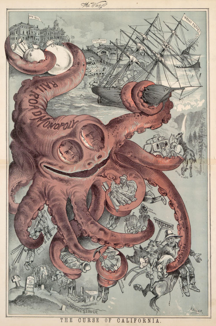 "The Curse of California." Tinted lithograph. This two-page illustration portrays the powerful railroad monopoly as an octopus, with its many tentacles controlling such financial interests as the elite of Nob Hill, farmers, lumber interests, shipping, fruit growers, stage lines, mining, and the wine industry.